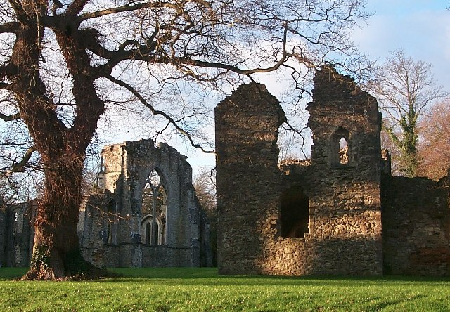 The abbot's house at Netley Abbey, Hampshire, with the church and cloister to the left